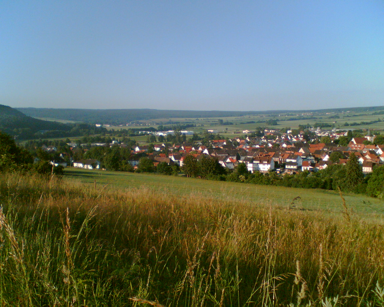 Dassel, Germany, on a sunny day